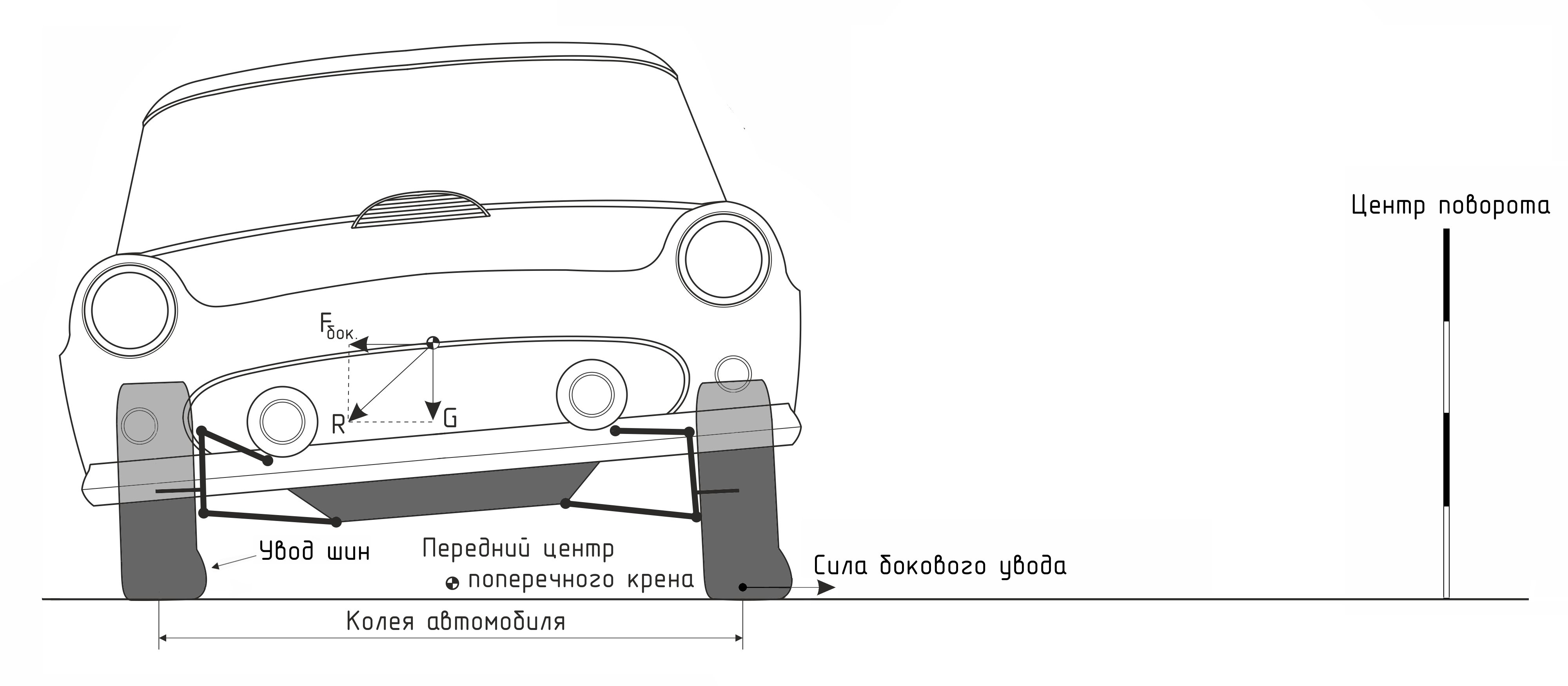 Turning car: rear suspension roll center, CG, centrifugal force, etc. (front view) Description in Russian